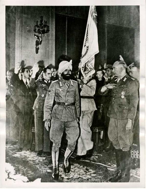 A Sikh Soldier of the Azad Hind Fauj at a function in Berlin - 1944